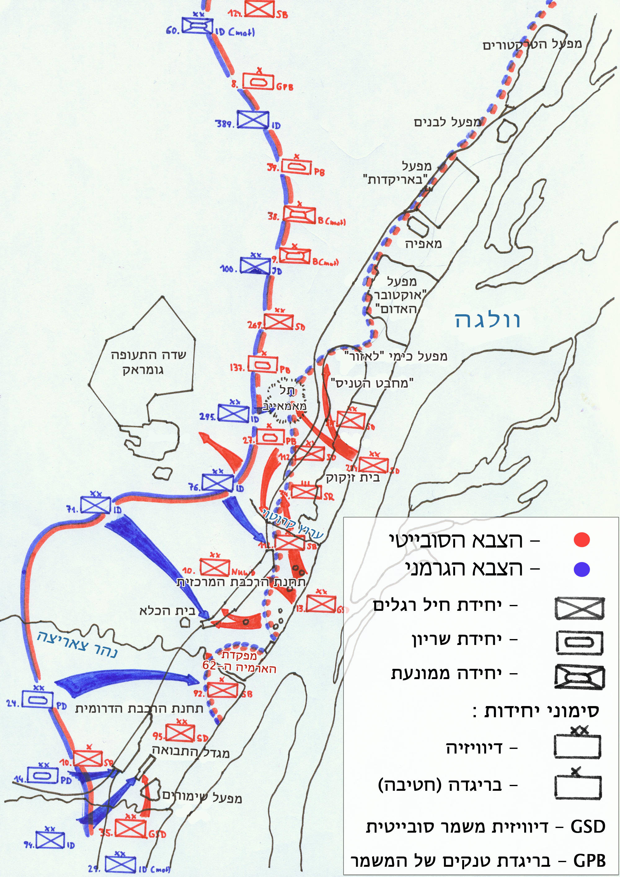 Stalingrad September 1942 Deutscher Angriff he